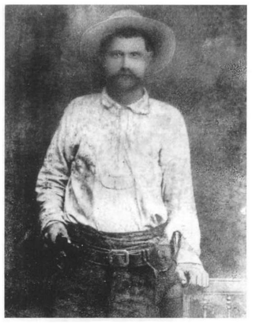 Photograph of Braxton "Brack Cornett" about 1886, a Texas train and bank robber. outlaw of the American West